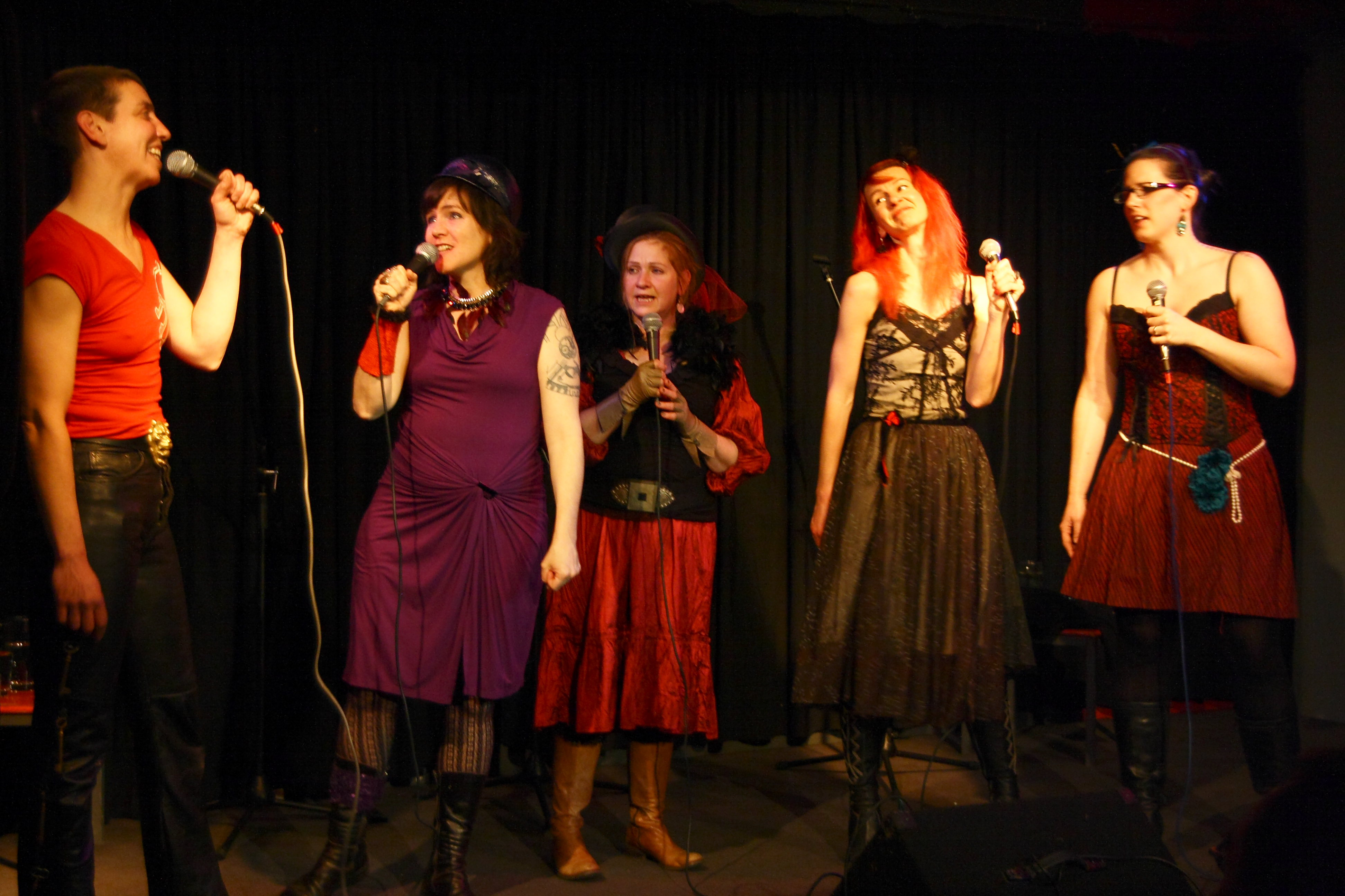 The Czech-American all-women´s a cappella group Kačkala 'performing at Club W71, Weikersheim. L.t.r.: Hilary "Backdoor Bobbi" Binder, Lexa "Blackbelt Betty" Walsh, Stacy "Ruby Royale" Rubin, Kateřina "Pretty Pink Pussy" Kubešová & Eva "Luscious Lucille" Kubešová.